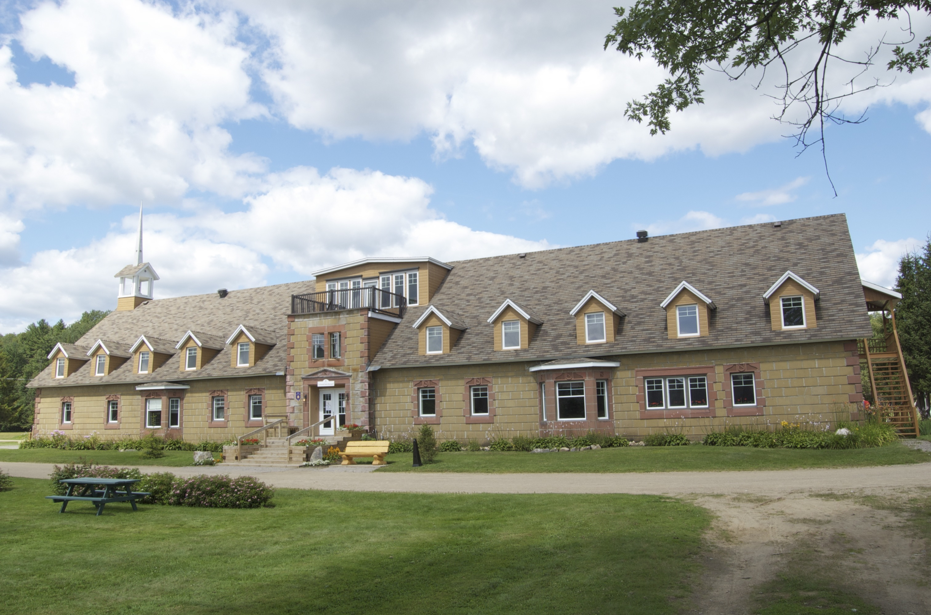 The main building at the Domaine Saint Bernard. Serves to sleep a few people and has a main hall used for performances.